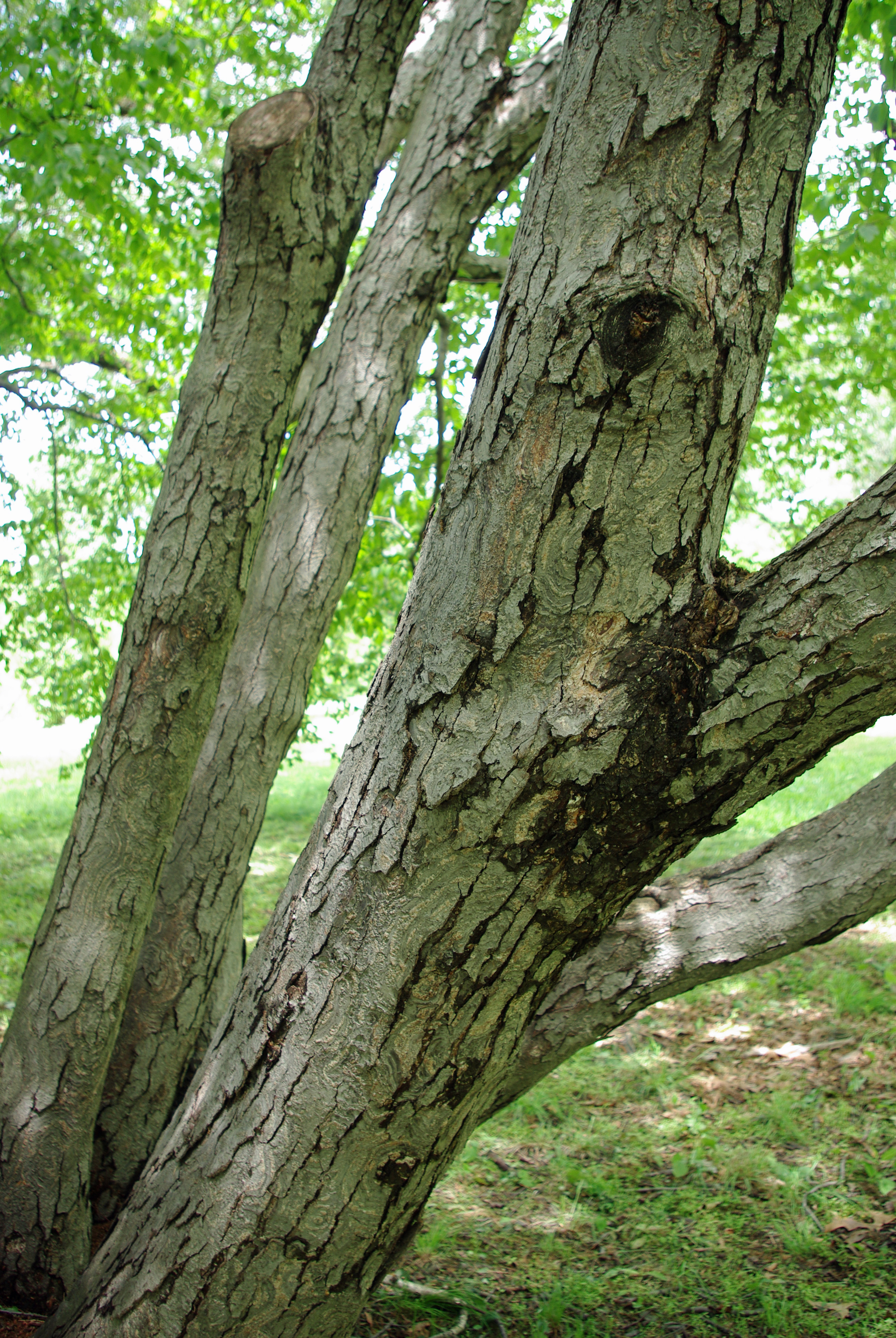 Trunk of Betula schmidtii, Arnold Arboretum, Boston, Massachusetts